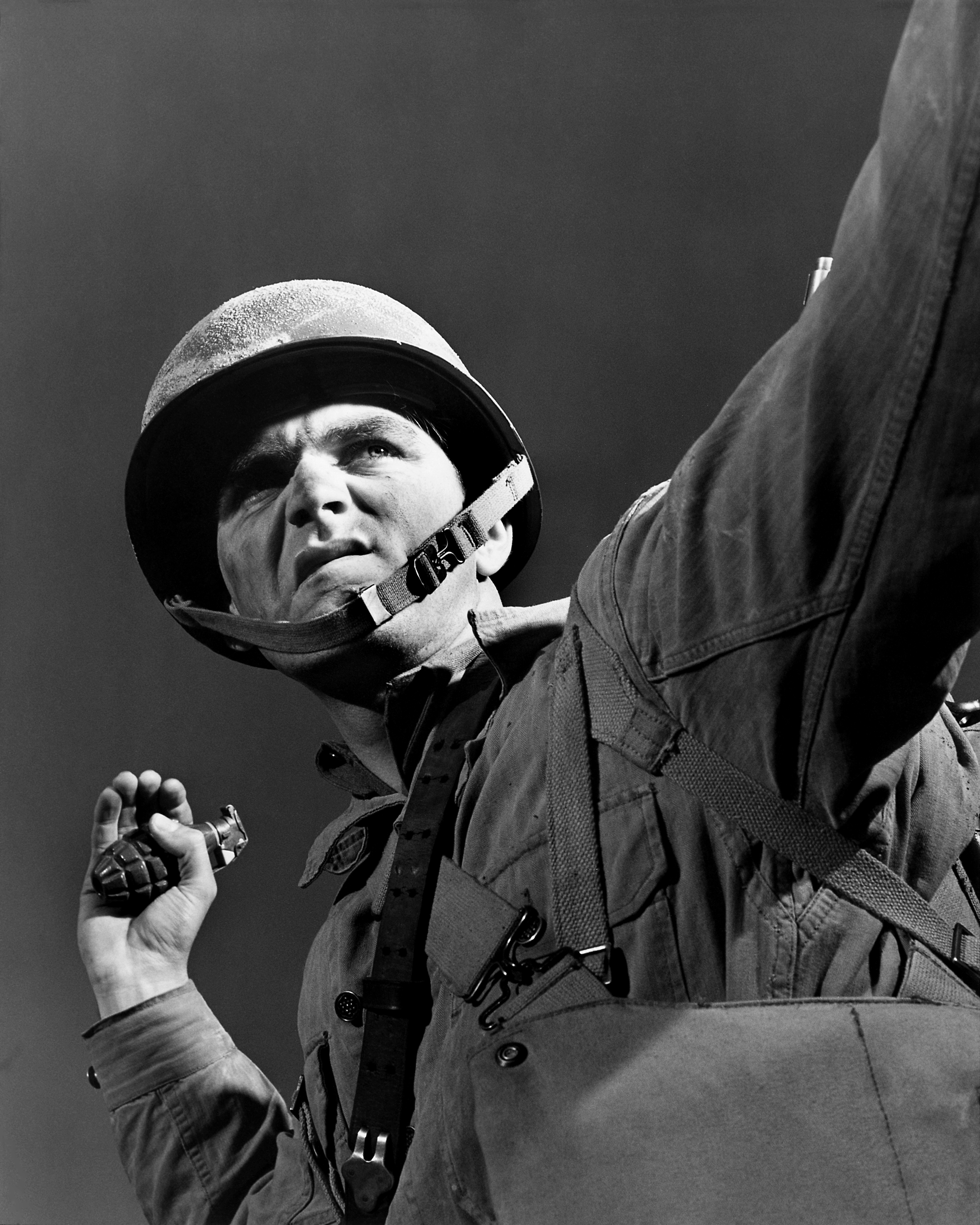 Fort Belvoir, Virginia. Grenade throwers. An infantryman in training at Fort Belvoir, Virginia prepares to hurl a grenade.